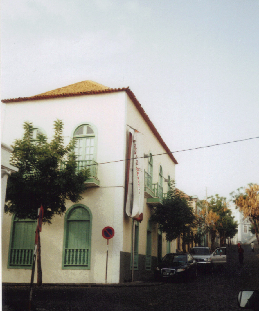 Museum, São Filipe, Fogo, Cape Verde.